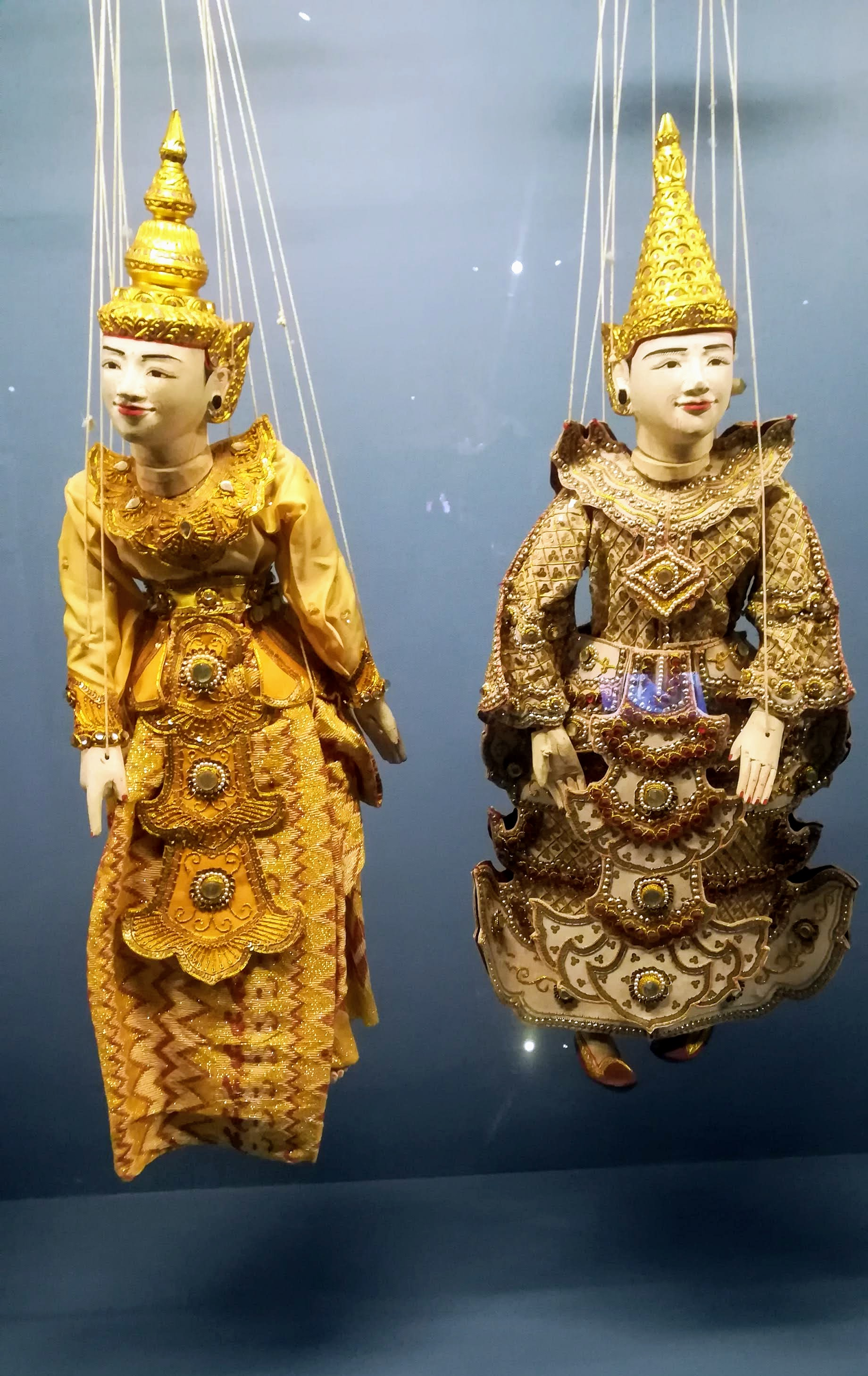 Burmese marionettes on display in the hall on Myanmar performing arts at the National Museum Yangon